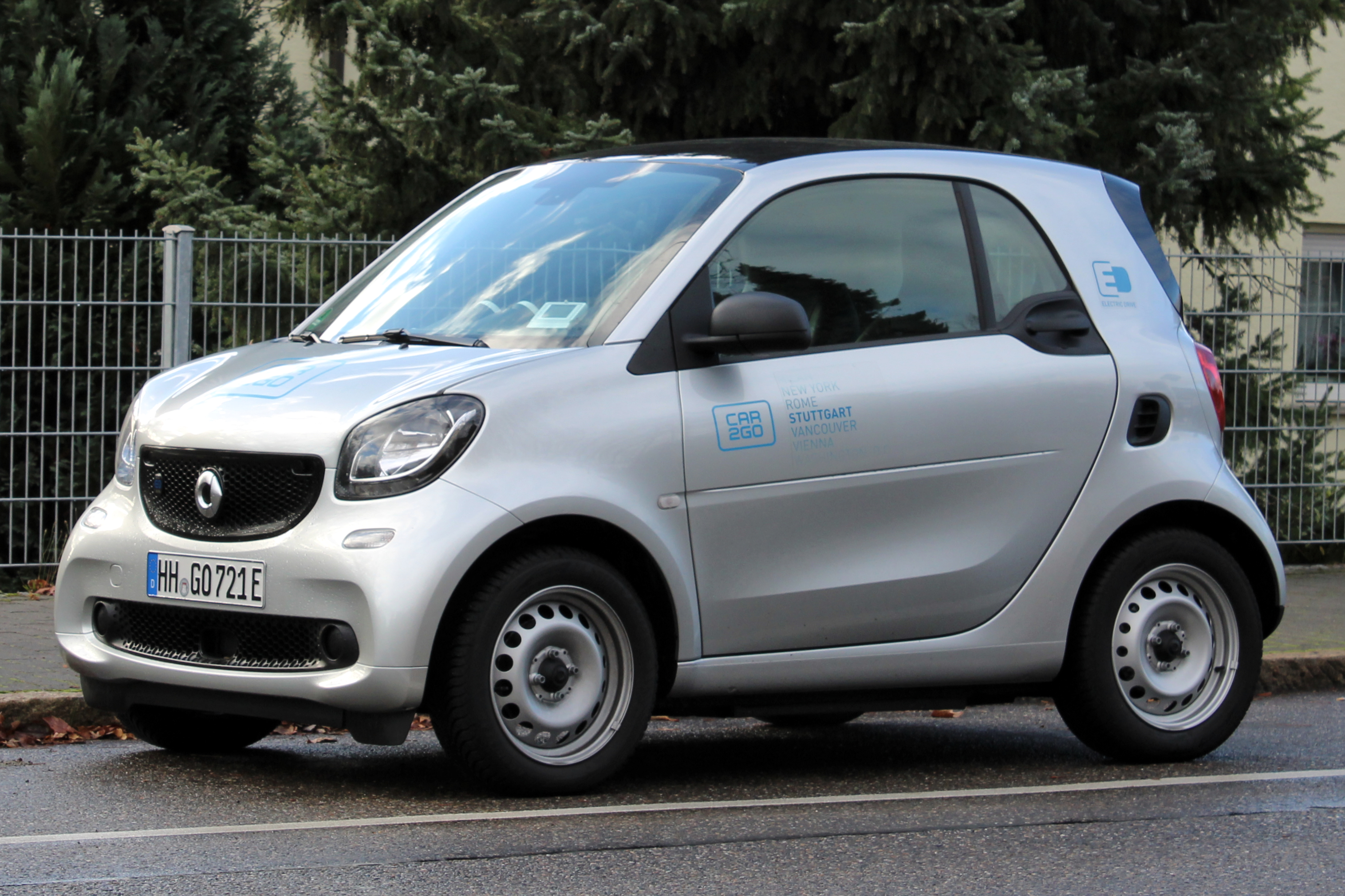 Smart Fortwo EQ (Car2Go) in Stuttgart-Vaihingen